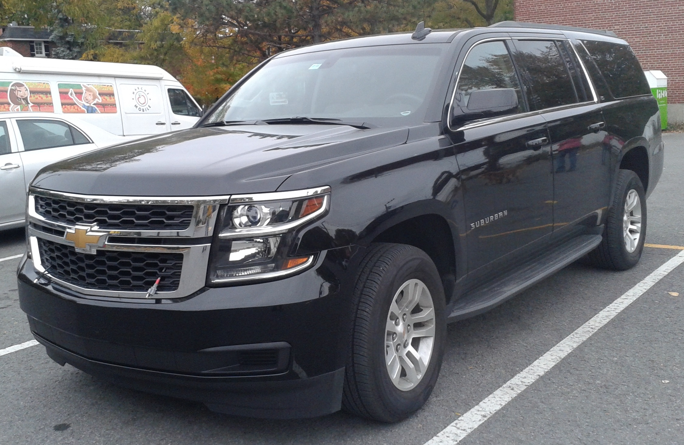 2015 Chevrolet Suburban photographed in Montreal, Quebec, Canada .